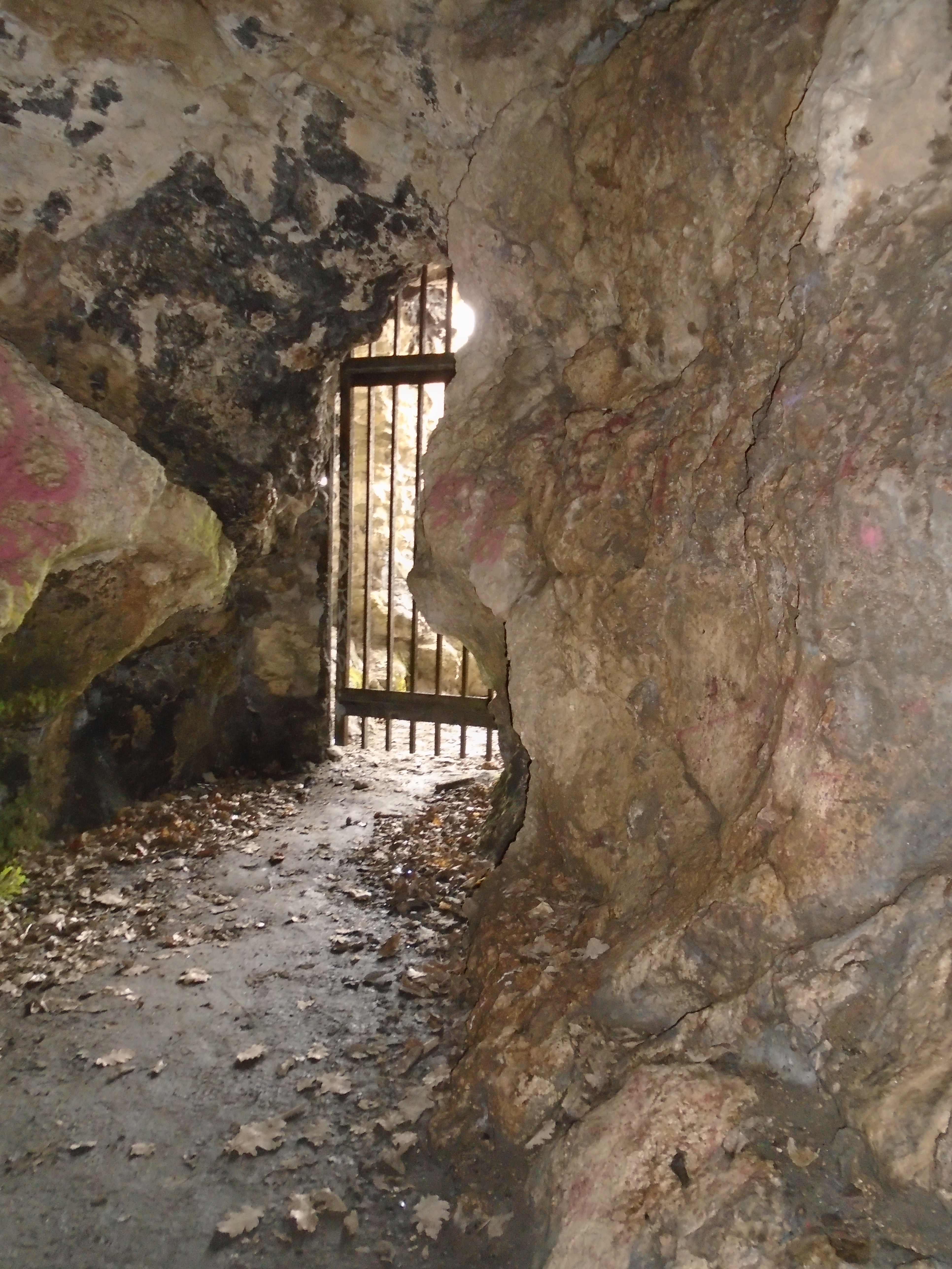 Inside of Tábor-hegyi Cave.